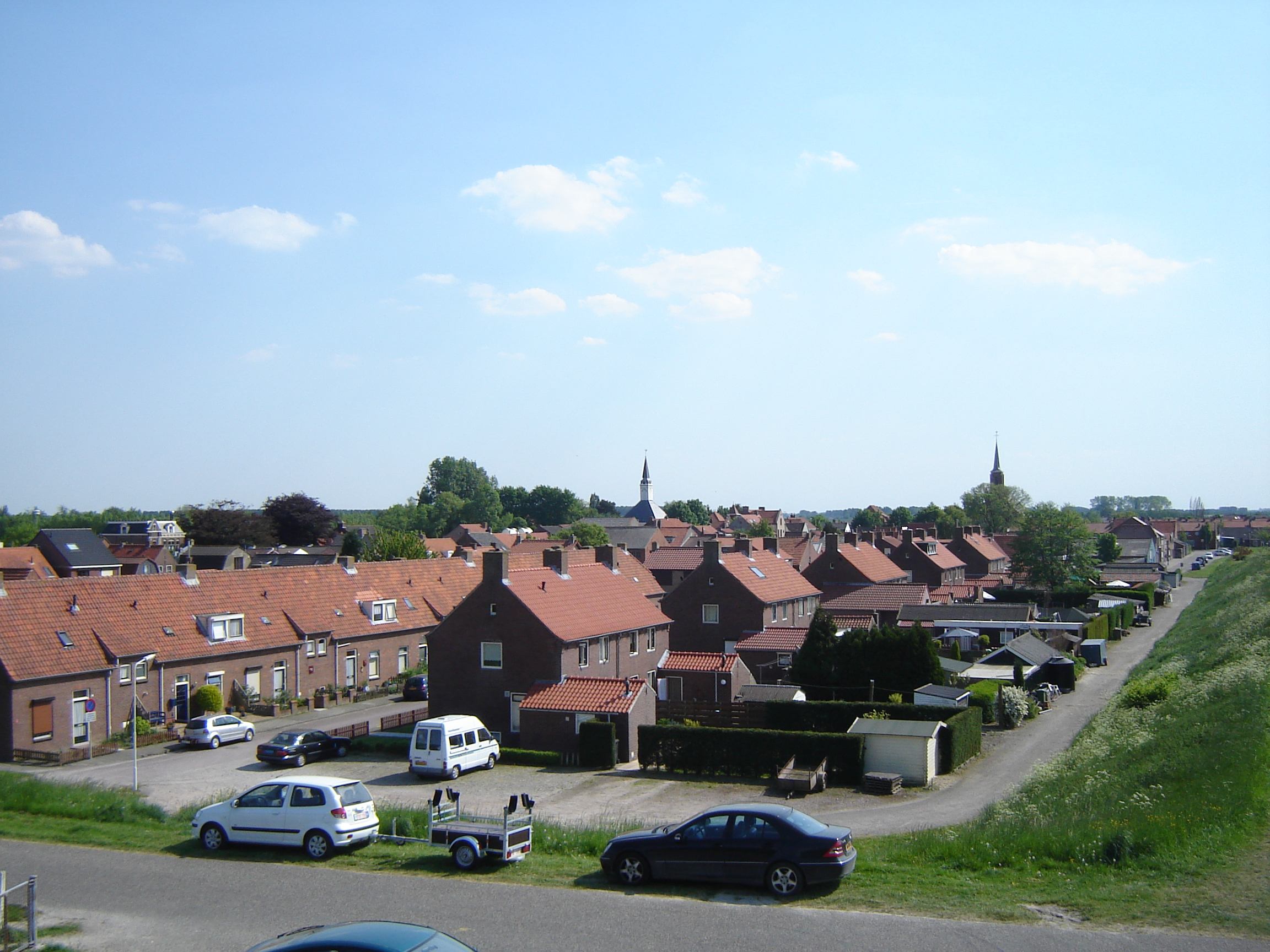 View on Hoofdplaat. Hoofdplaat, Terneuzen, Zeeland, Netherlands